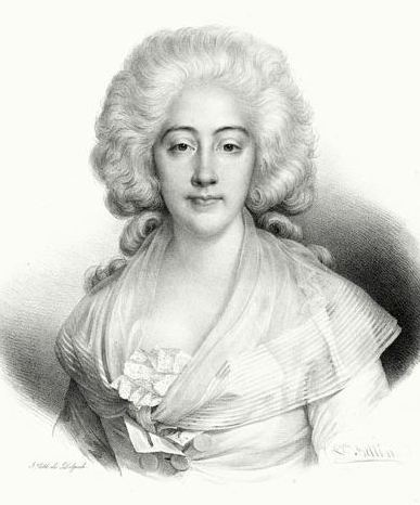 Marie-Josephine Louise de Savoie (1753-1810), Madame de Provence; wife of King Louis XVIII of France